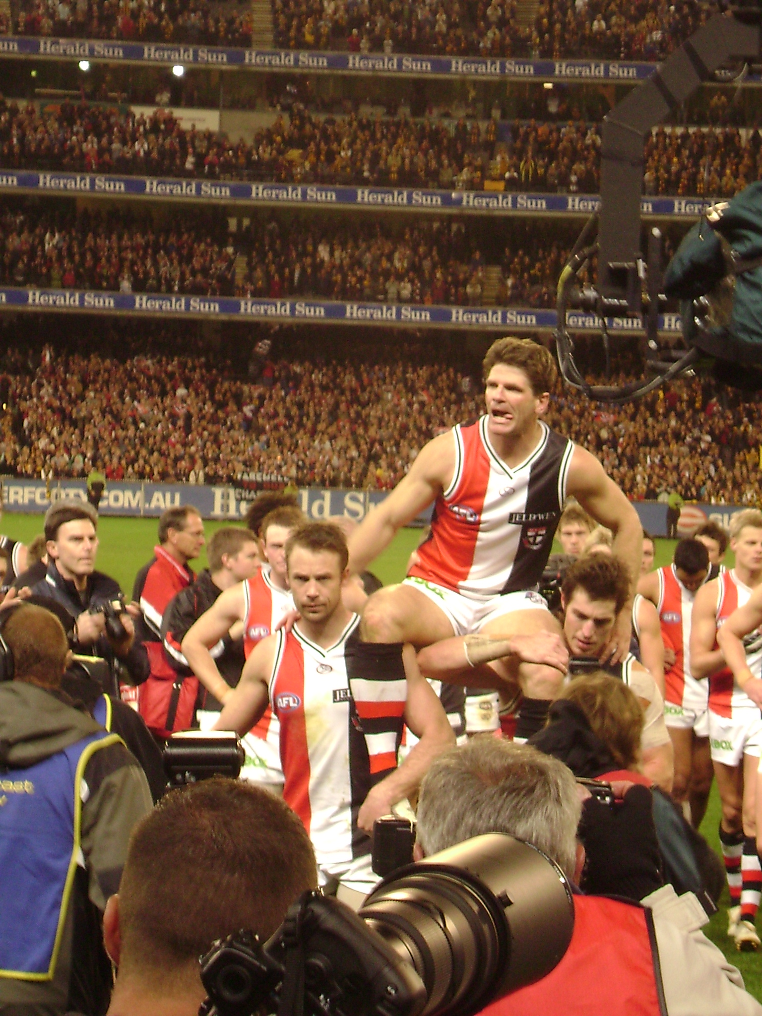 Robert Harvey is carried off after his final match by Max Hudghton and Lenny Hayes.